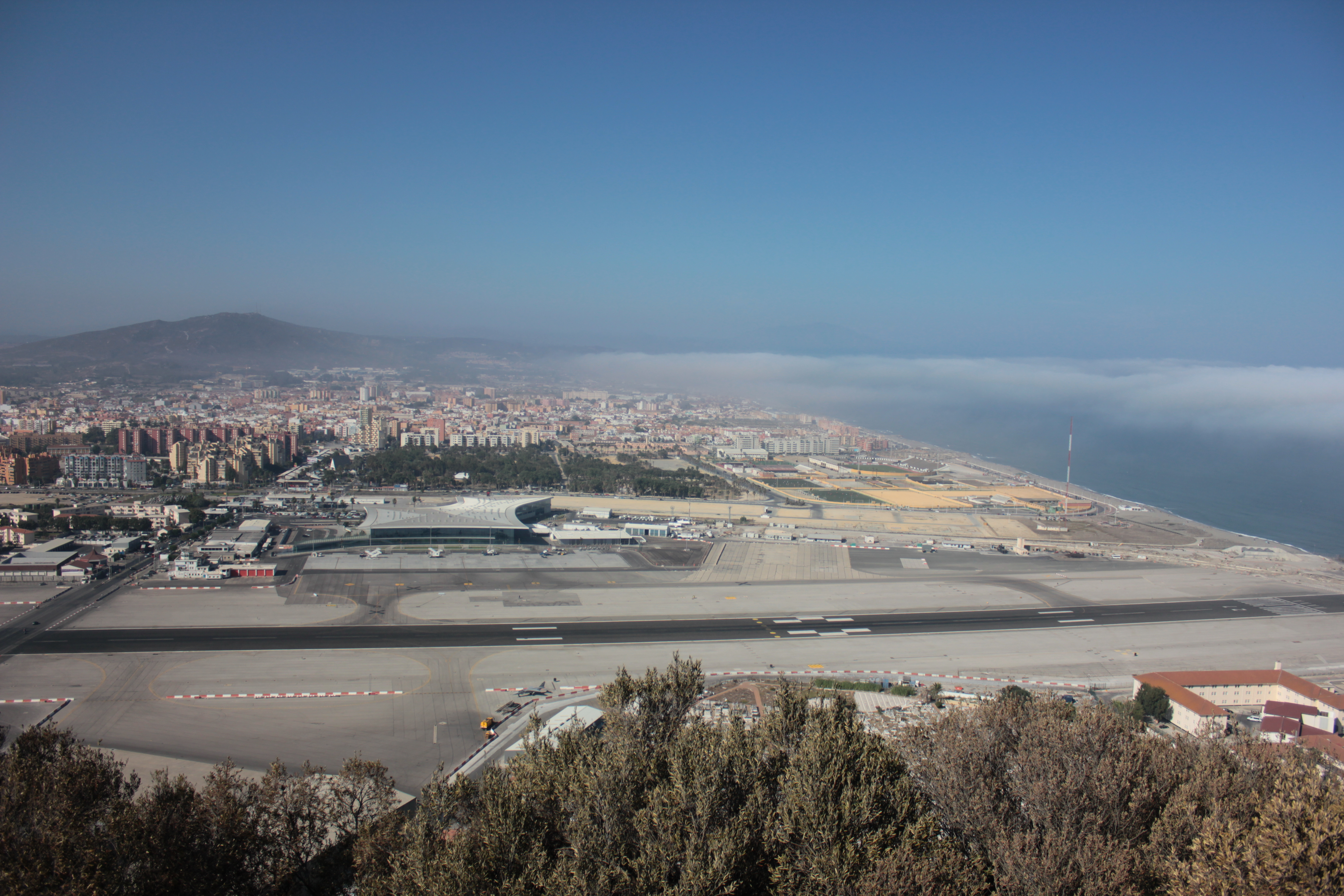 Gibraltar International Airport and surrounding area